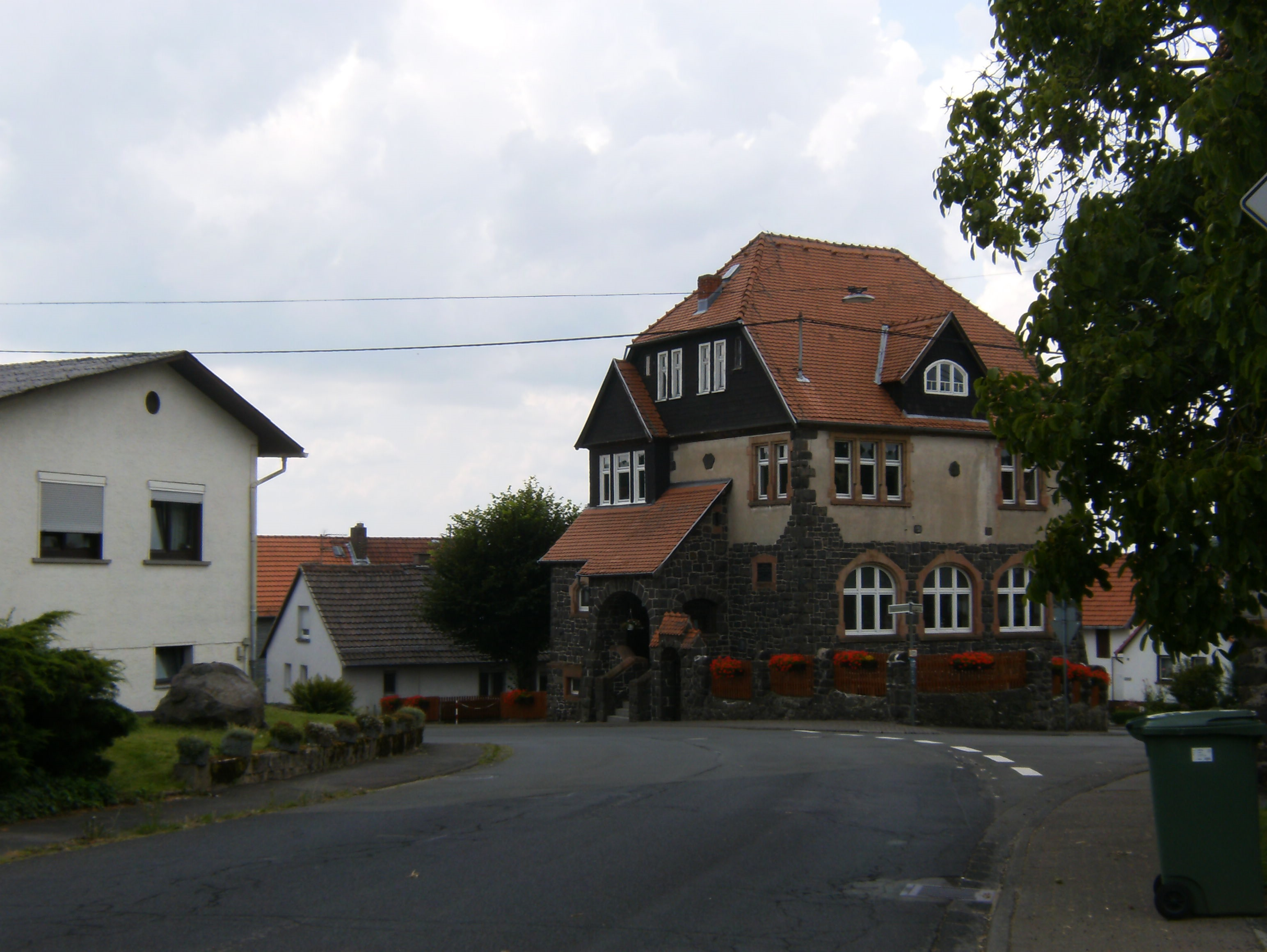 Altenhain, a rural district of Laubach in Hesse - the former schoolbuilding.